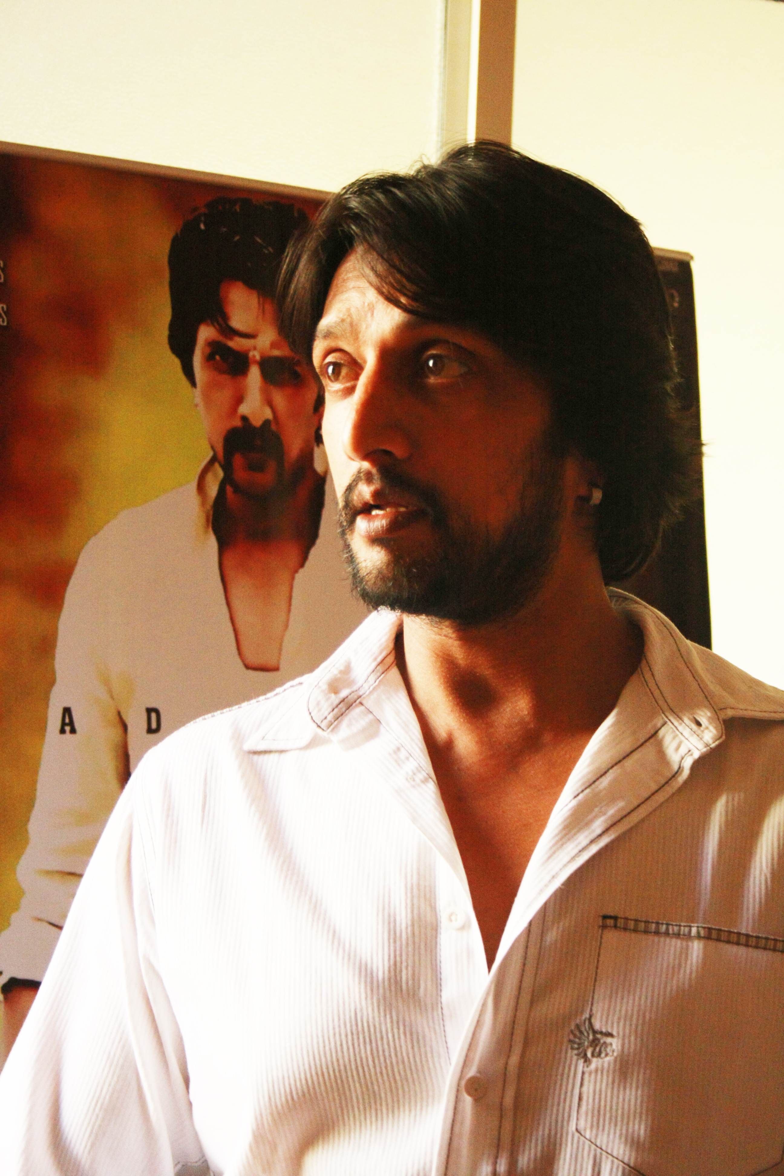 Actor Sudeep arrives at the recording session for the Kannada language version of the TeachAIDS animation in Bangalore, Karnataka. Photo credit: TeachAIDS